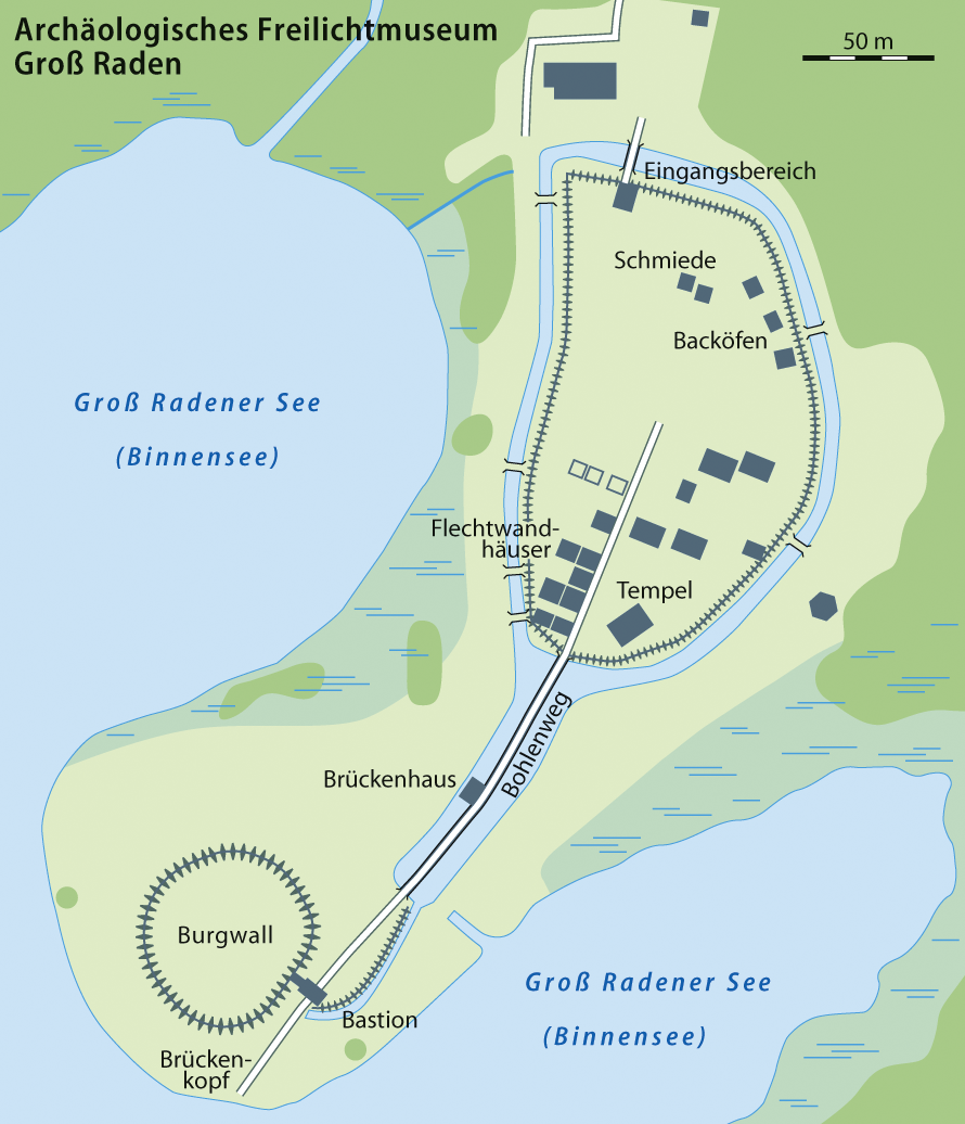 Map of the "Archäologisches Freilichtmuseum Groß Raden"